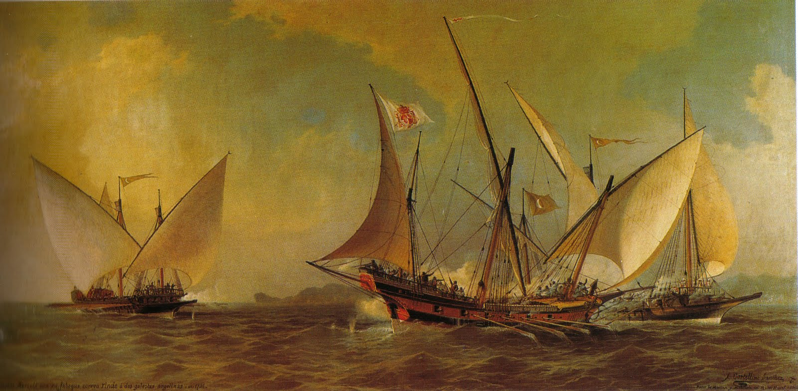 CORRECT CAPTION: "Antonio Barcelo, with his courrier xebec, rejects two algerian galiots (1738)". Madrid's Navy Museum (catalog number: 522). 1902 oil painting by Ángel Cortellini y Sánchez (1858-1912). ORIGINAL CAPTION: "Don Antonio Barceló with his courrier surrenders to two algerian galiots - year 1736". NOTE: A Spanish xebec sails, in foreground, she is firing using her port artillery and heading to an Algerian galiot which almost cuts-off her bow. In the left appears another one, sailing to the xebec and firing her gun while her target shoots back. Barceló became captain of this xebec when he was 18, she was servicing between Palma de Mallorca and Barcelona and this action is set in 1738 while there was a detachment of Dragoons and another of infantry onboard. He stroke back and routed the enemies, for this action he was promoted Ensign. Given the historical explanation it is clear that the painter did a mistake with the caption. The scene is correct but the interpretation and the year don't coincide.